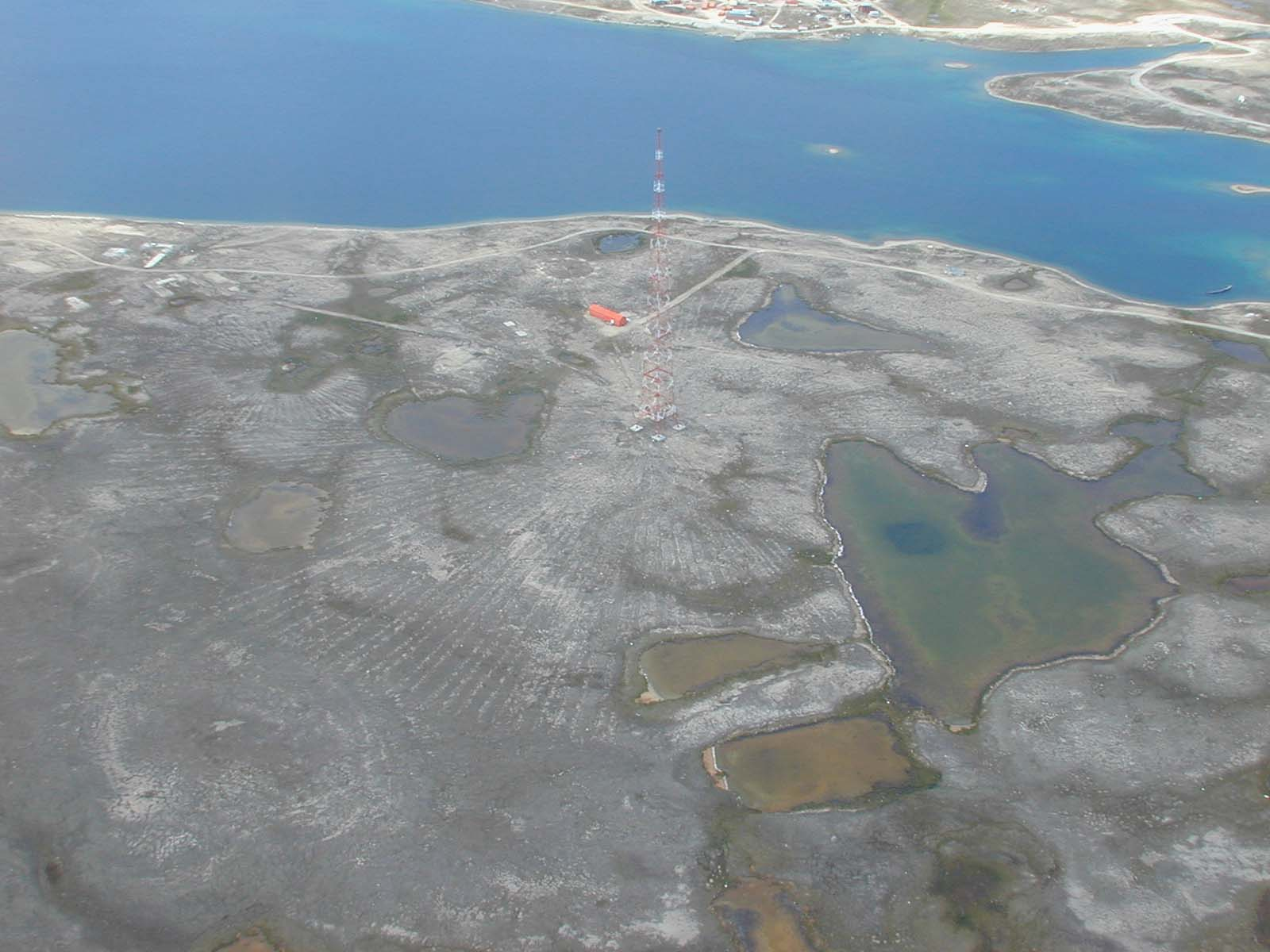 LORAN tower at Cambridge Bay. Used as an NDB, often called the "CB" beacon.